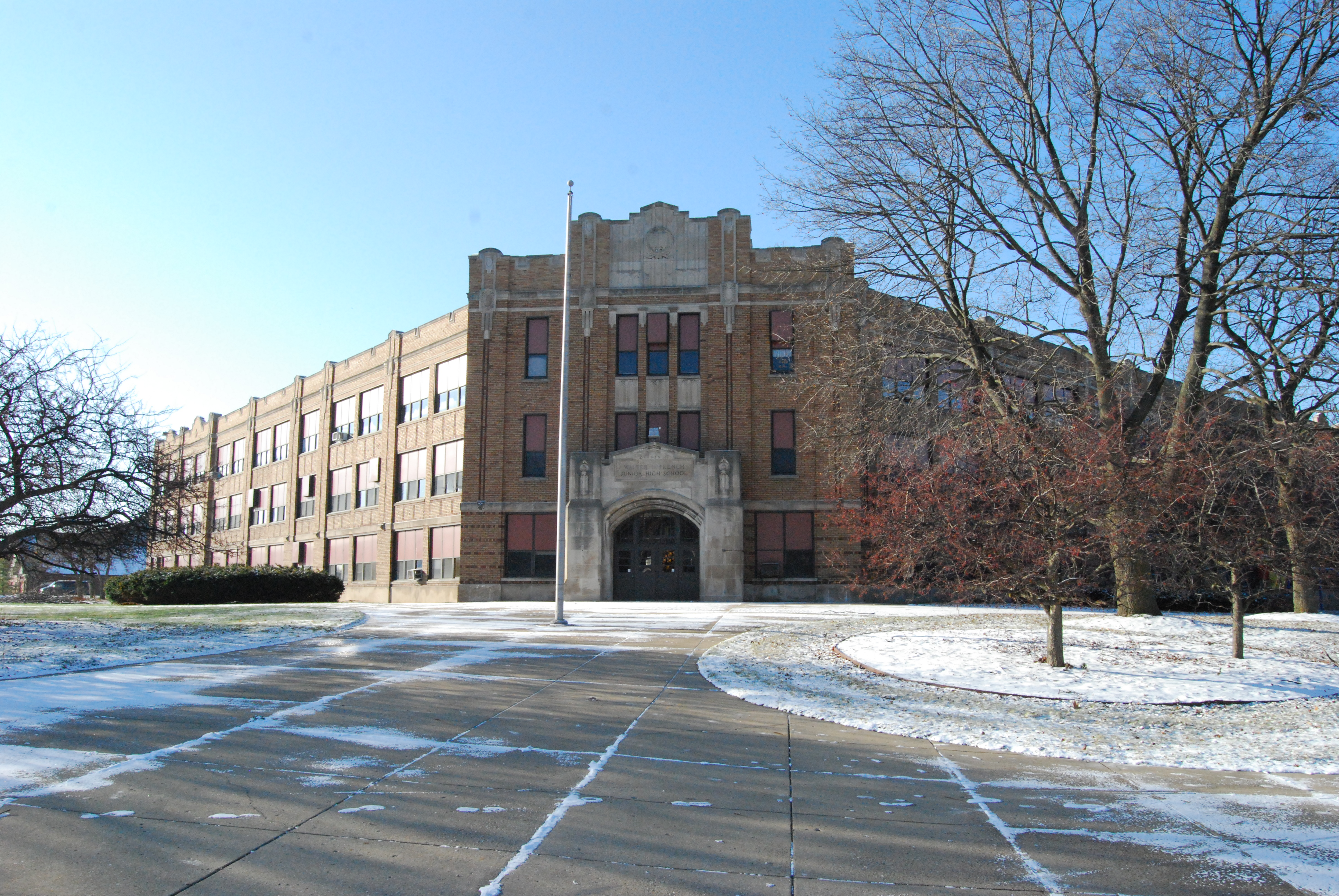 Photo of Walter French Academy taken from the corner of (east) Mt. Hope and (south) Cedar on December 10th, 2011.